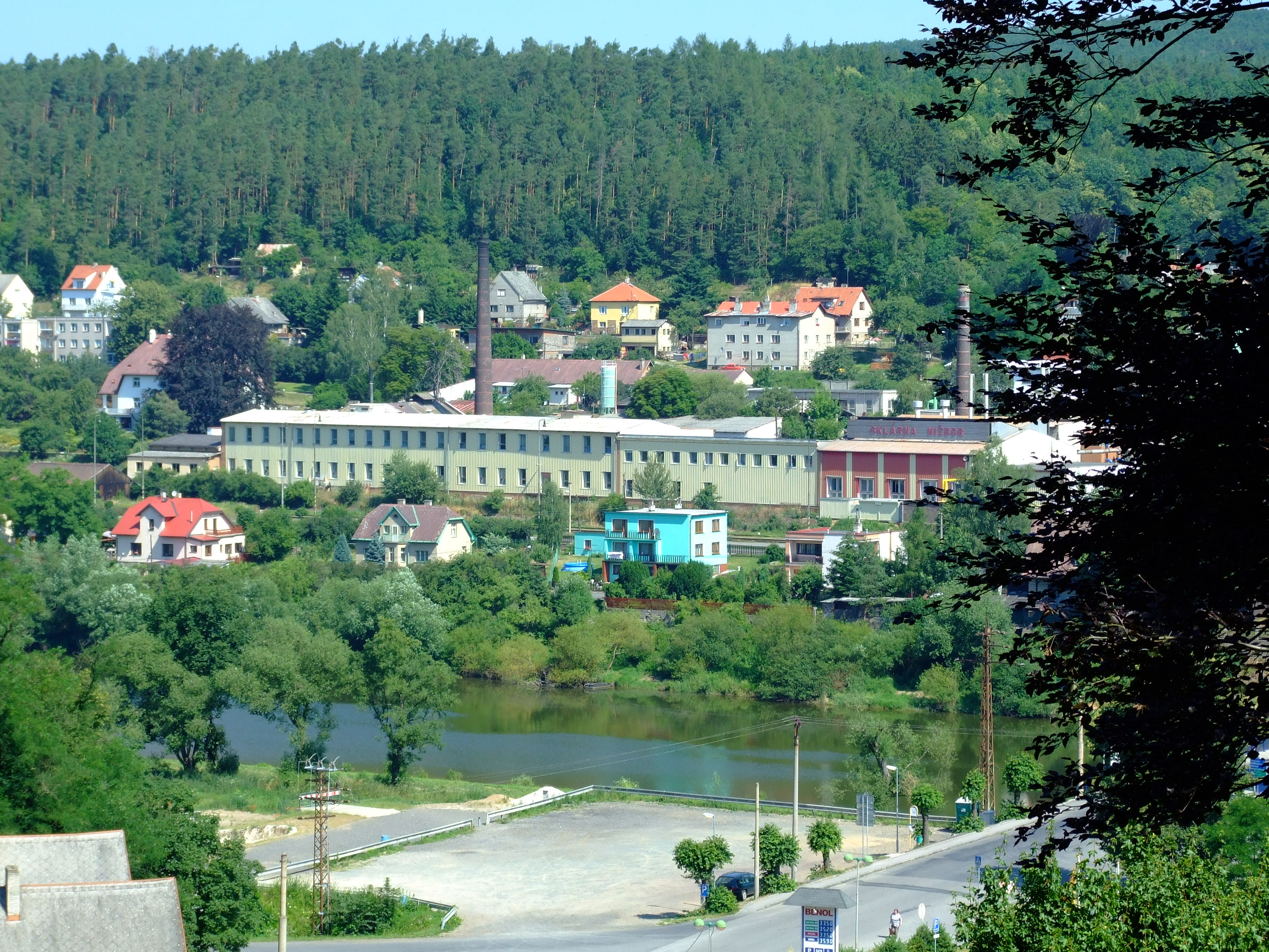 Nižbor town, Central Bohemian region, CZhelp